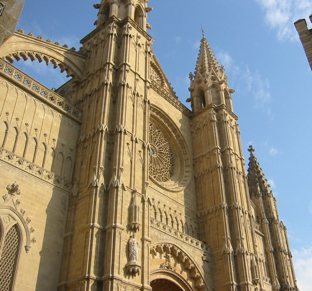 La Seu Cathedral, Palma de Mallorca (Spain) Fotography by Usuario:Rapomon with camera Canon IXUS v2